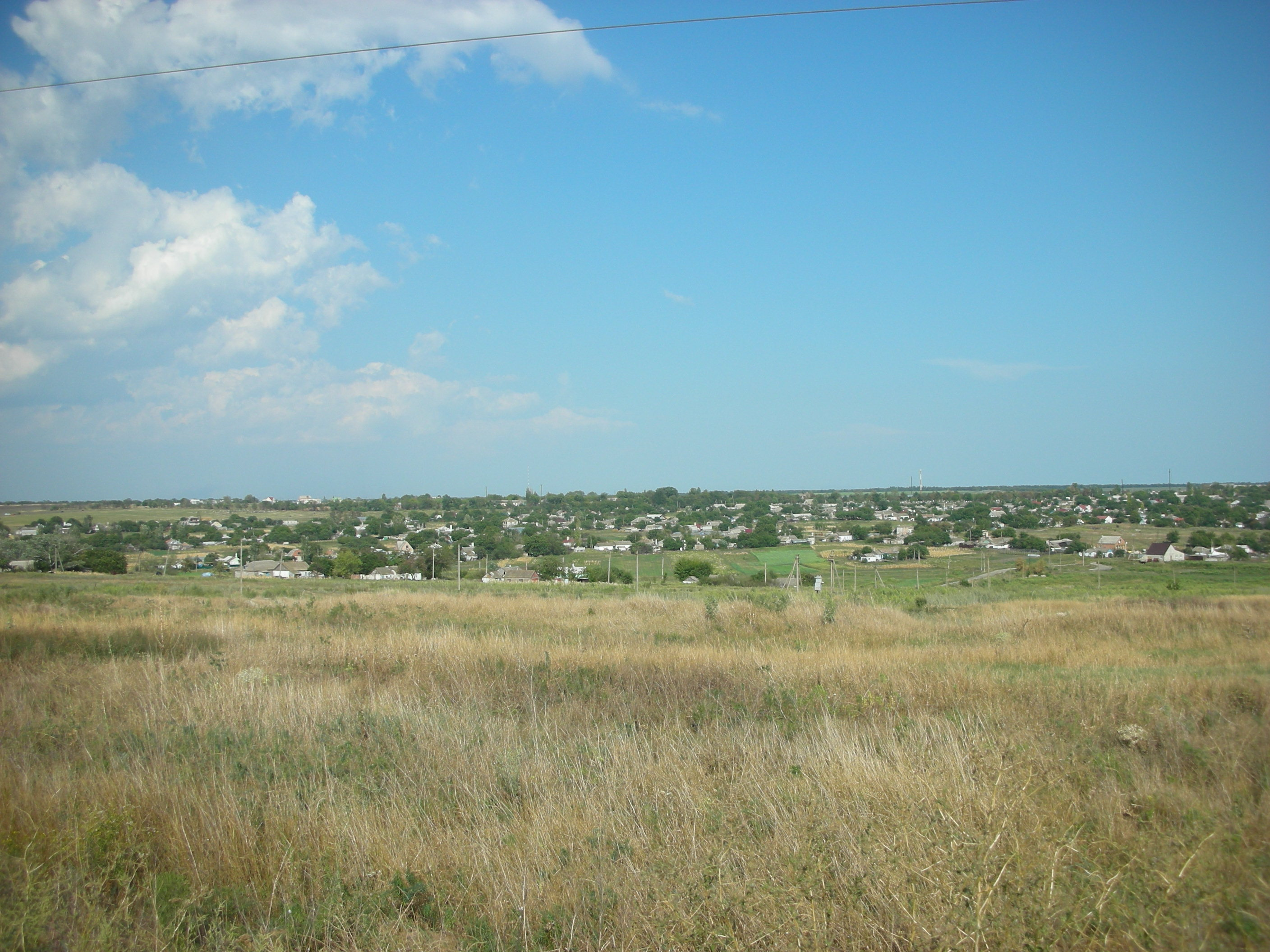 Mangush, summer 2012